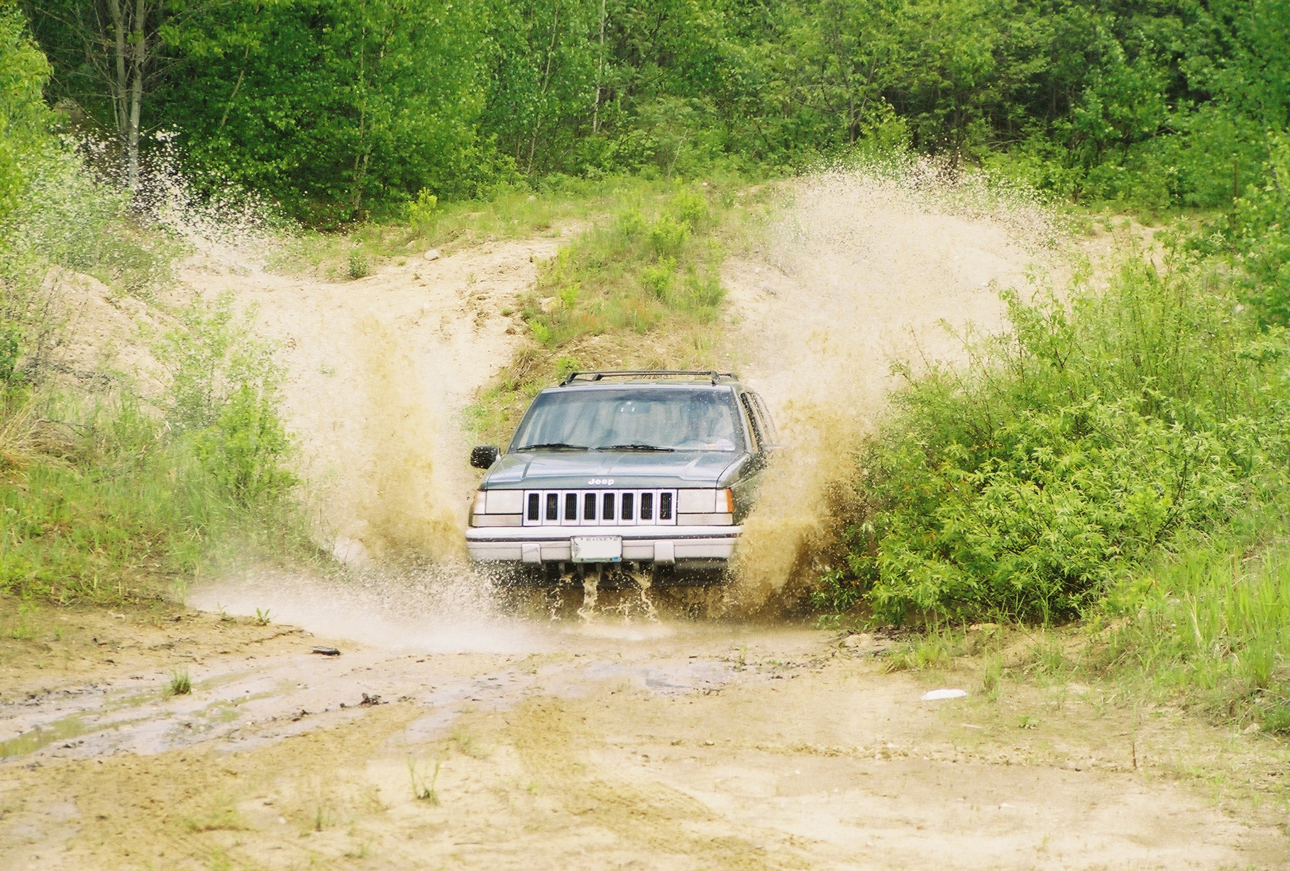 1994 Jeep ZJ fording a puddle.